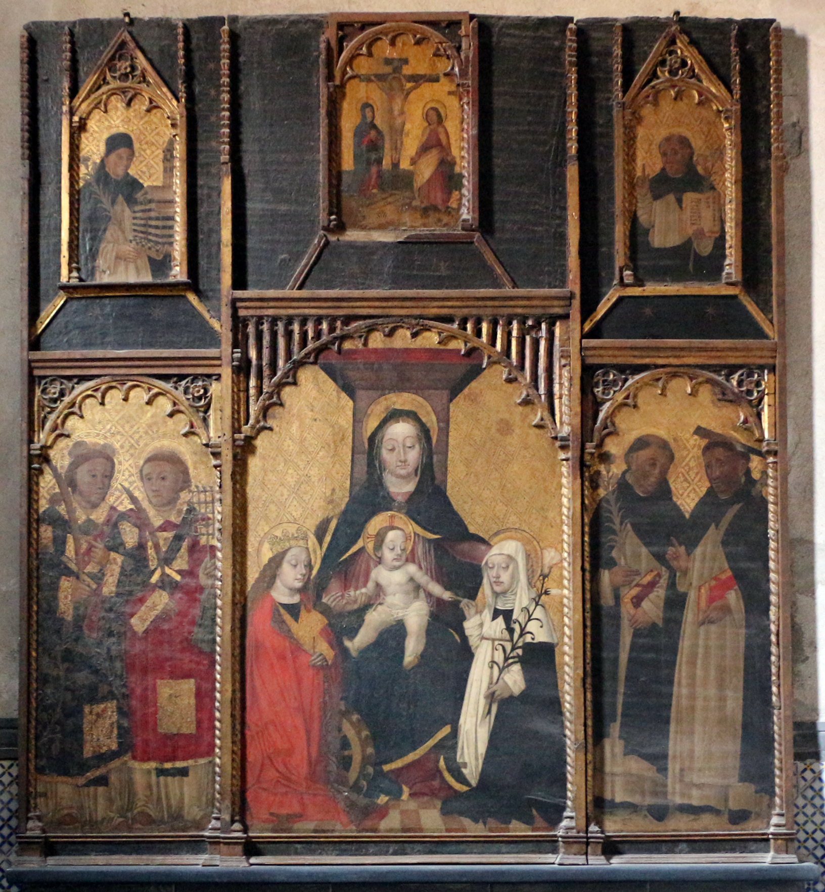 Santa Maria di Castello (Genoa) - Interior